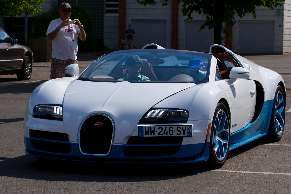 Bugatti Veyron Grand Sport Vitesse SE, photographed in Tampere, Finland June 2013